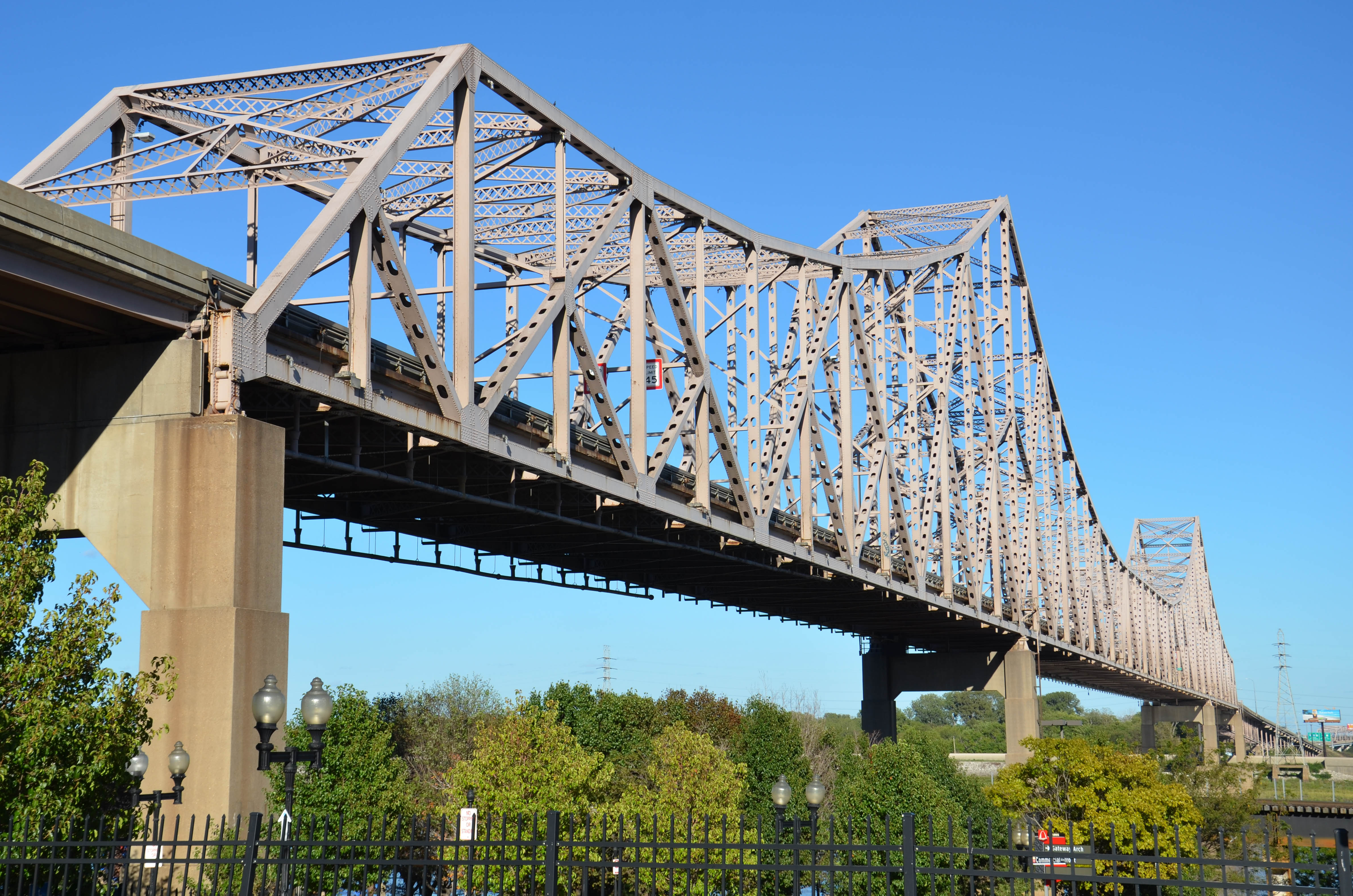 Martin Luther King Bridge connecting St. Louis, Missouri with East St. Louis, Illinois.